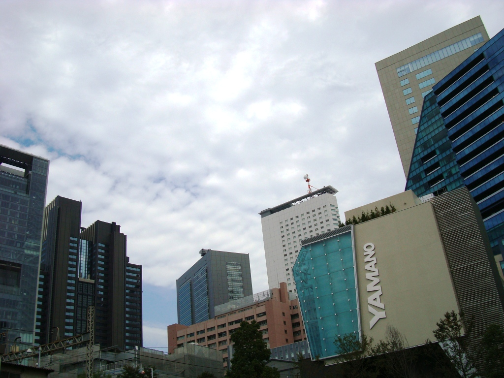 Skyscrapers in Yoyogi district of Tokyo. High-rise buildings are: (From left) Yoyogi Seminar Tower, Shinjuku Minds Tower, JR-East Headquaters building, Odakyu Southern Tower, and MY Tower.